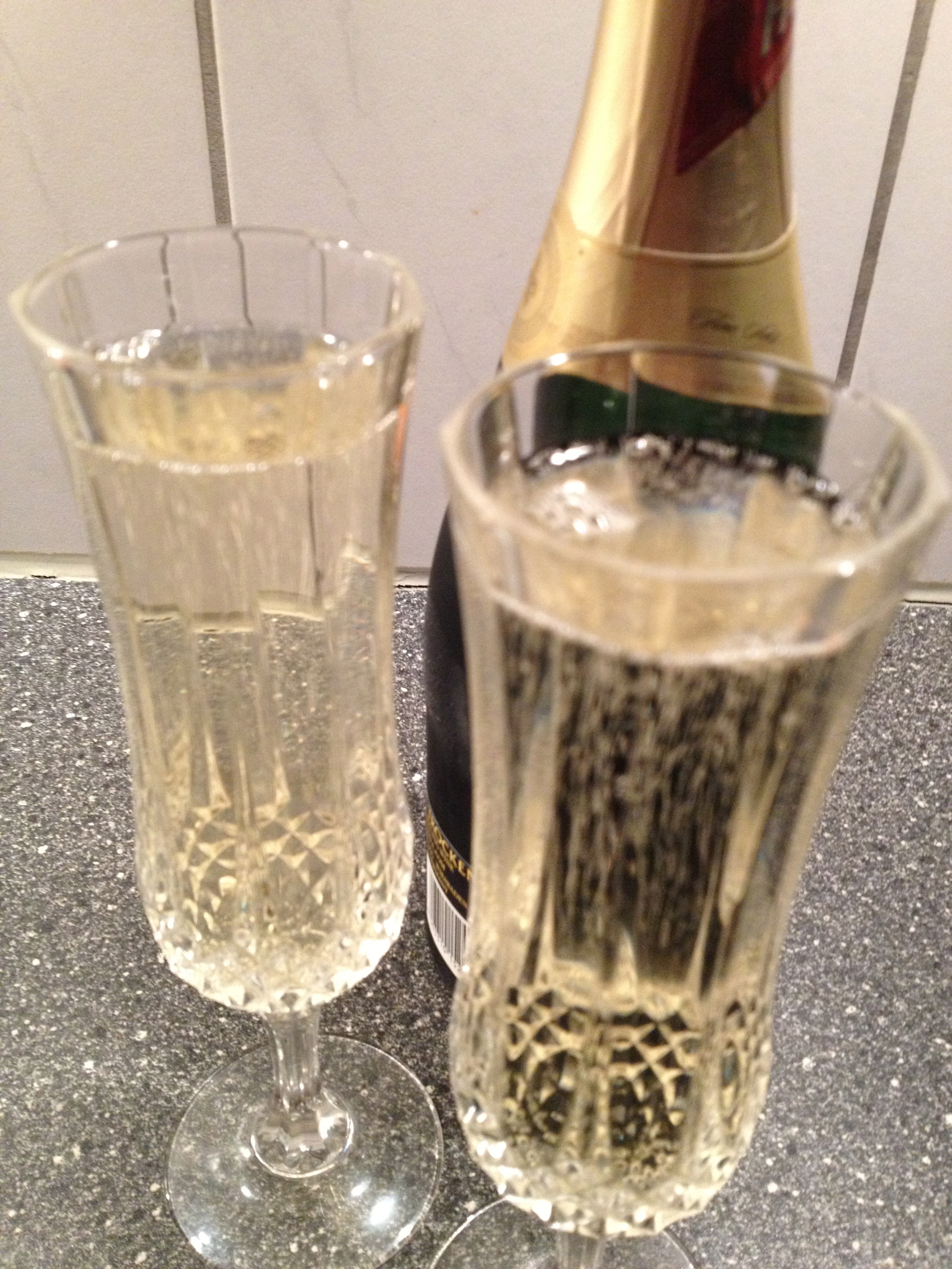 Sparkling wine in Champagne flutes